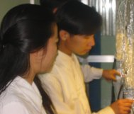 Aeroponic-StudentsHanoi_Vietnam